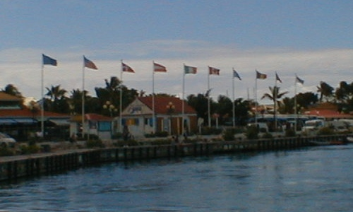 flags flying in Marigot harbor, Saint-Martin (February 2004)